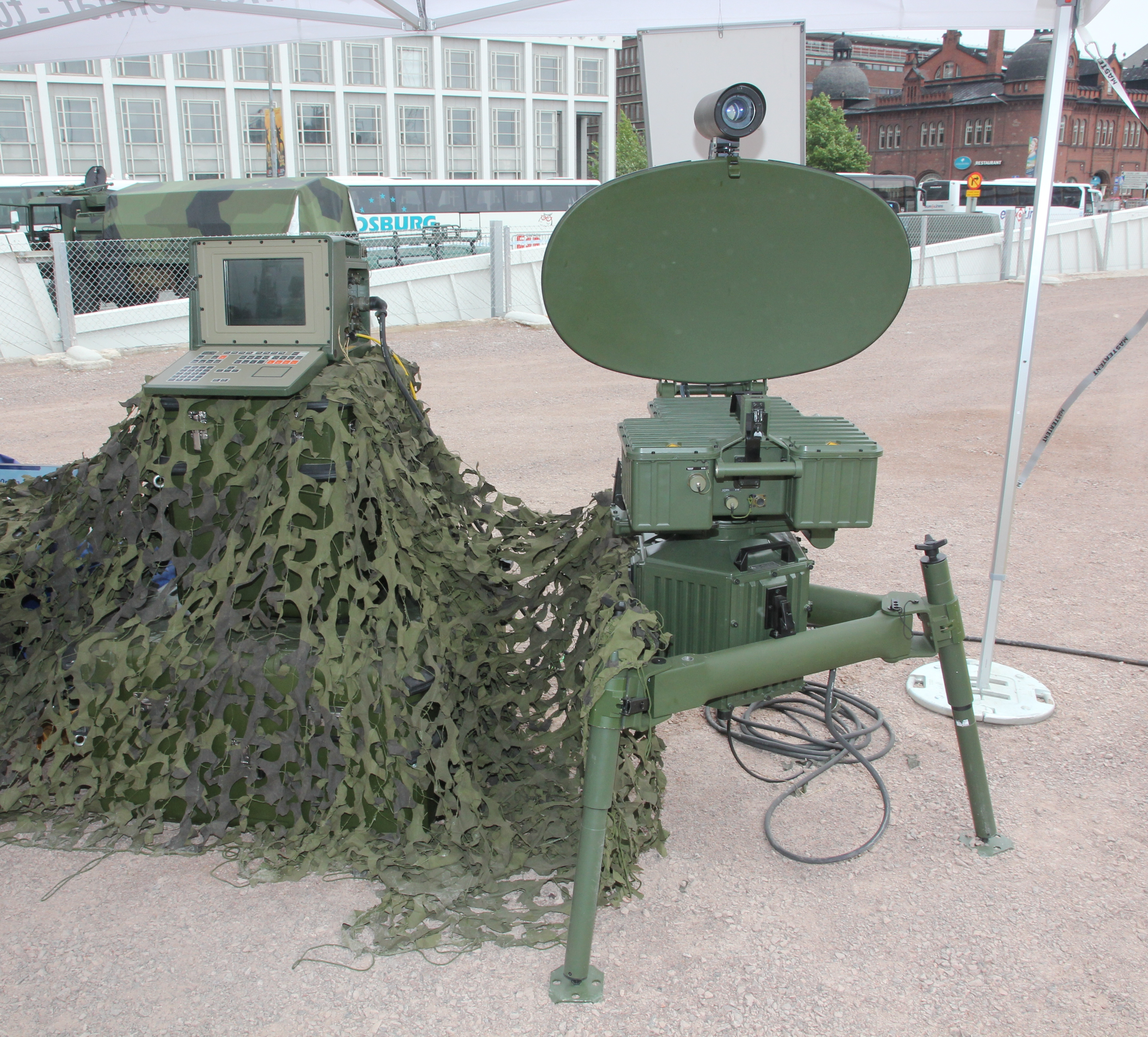 BOR-A 550 coastal radar on display during the Finnish Navy 2012 anniversary.